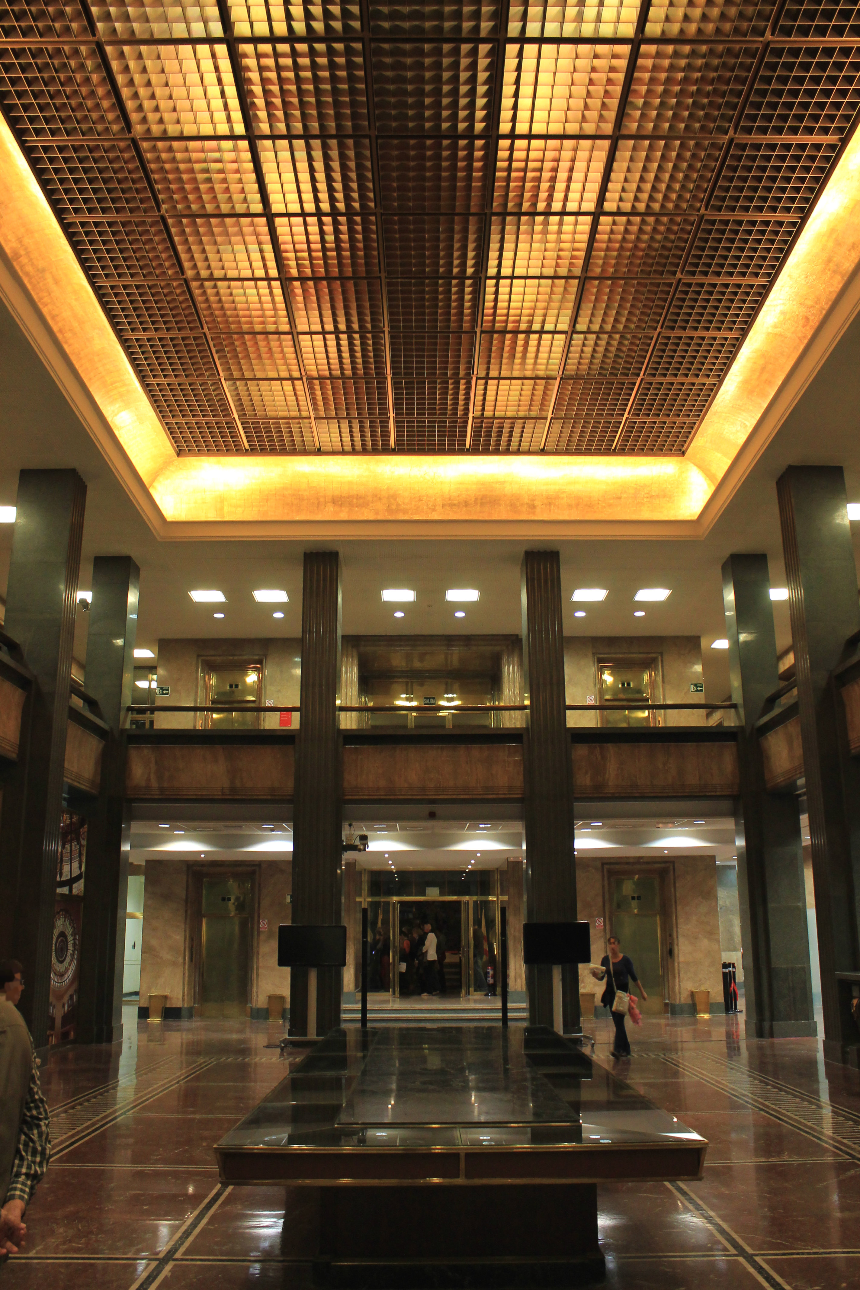 Interior of Cervantes Institute headquarters in Madrid (Spain).